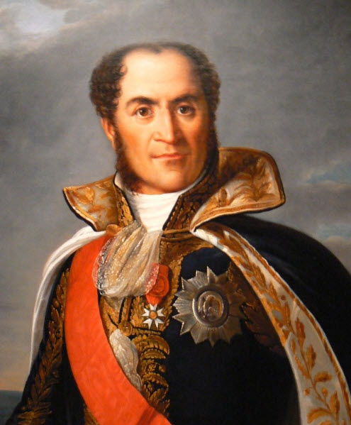 Guillaume-Marie-Anne Brune